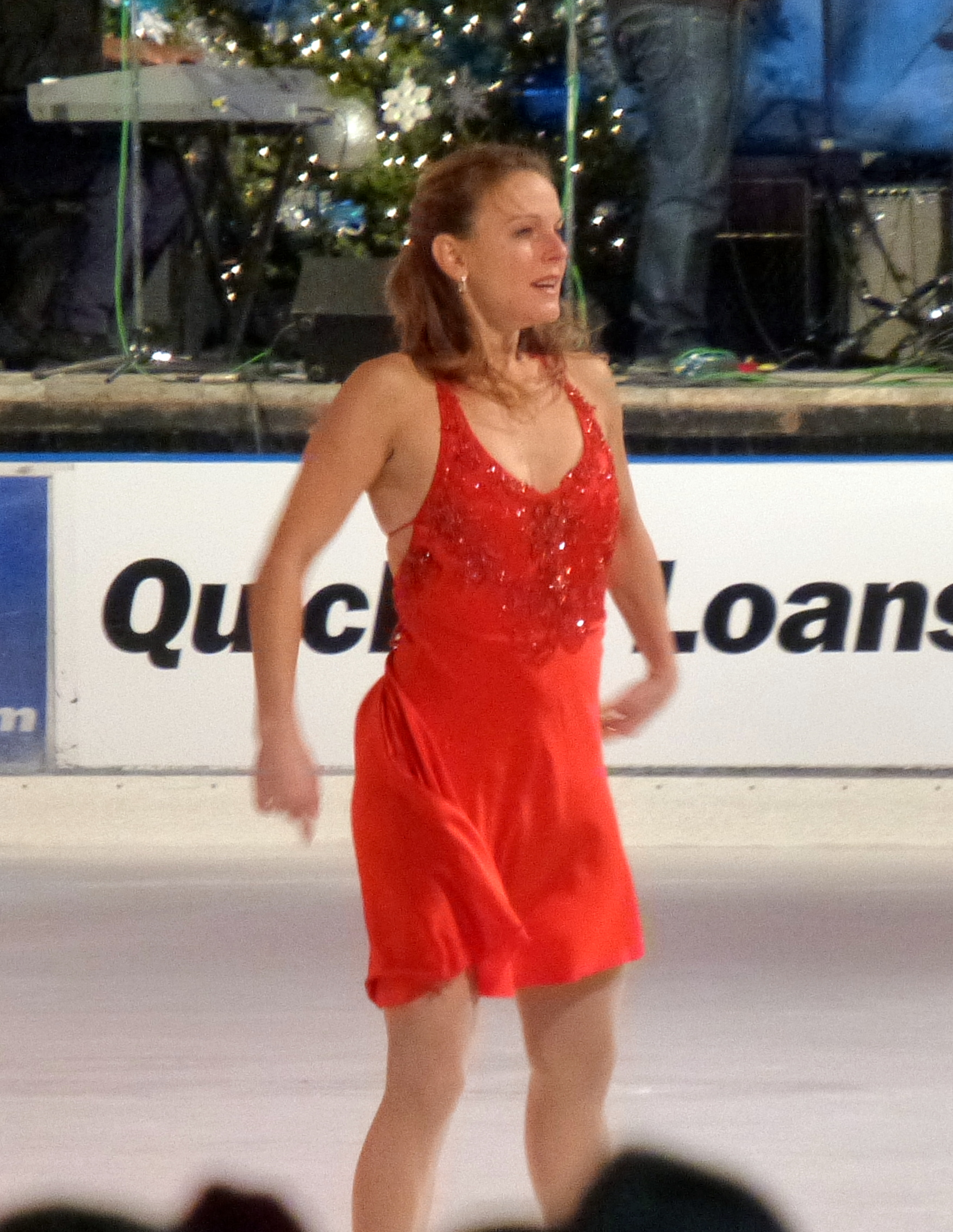 Ekaterina Gordeeva performing at 2014 Detroit Christmas Tree Lighting Ceremony at Campus Martius Park